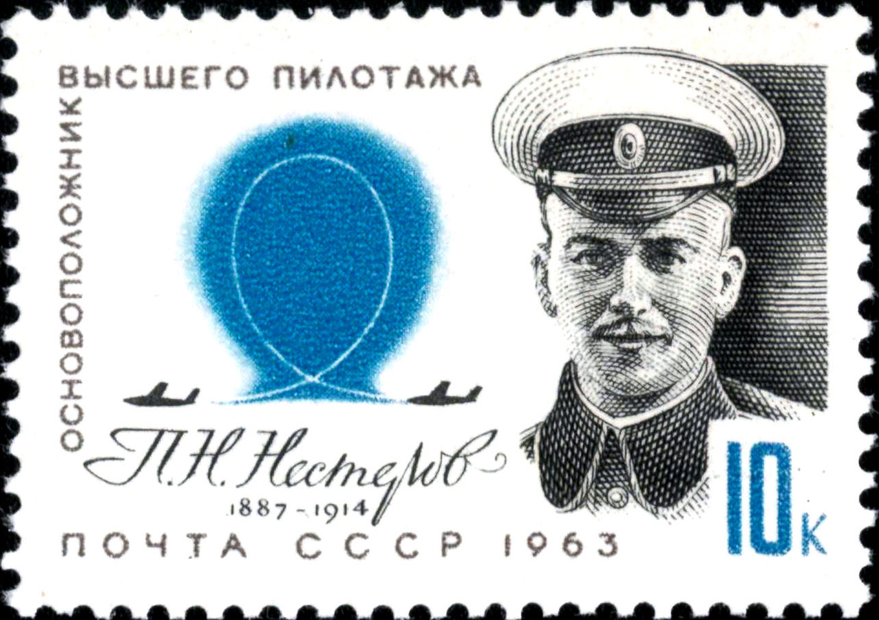 Soviet stamp of 10 kopecks (1963). Pyotr Nesterov, Russian pilot (1887-1914)